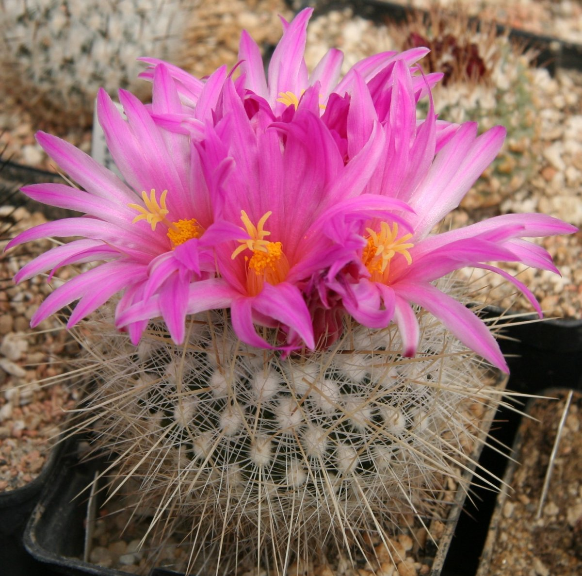 Thelocactus macdowellii